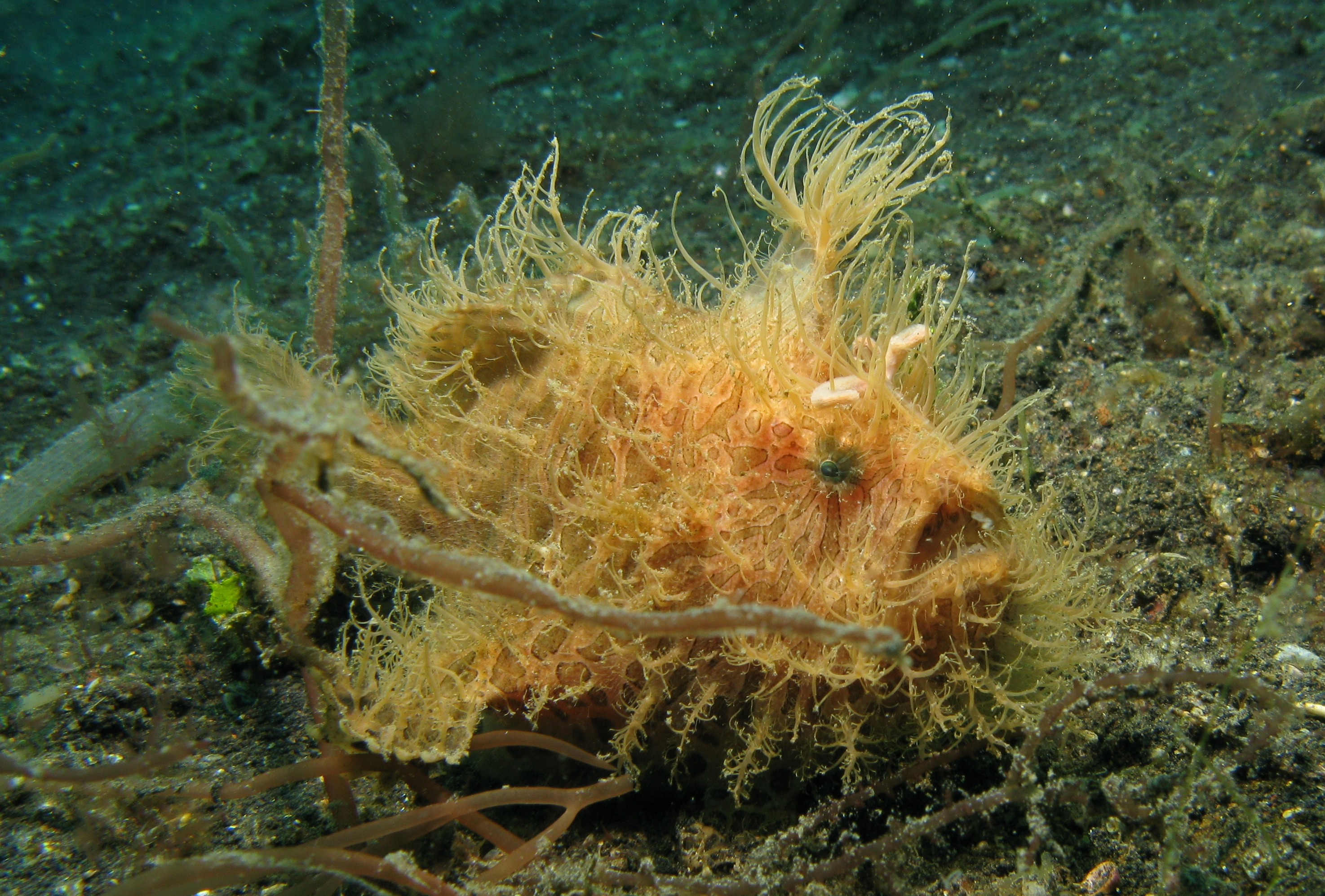 Hairy Frogfish